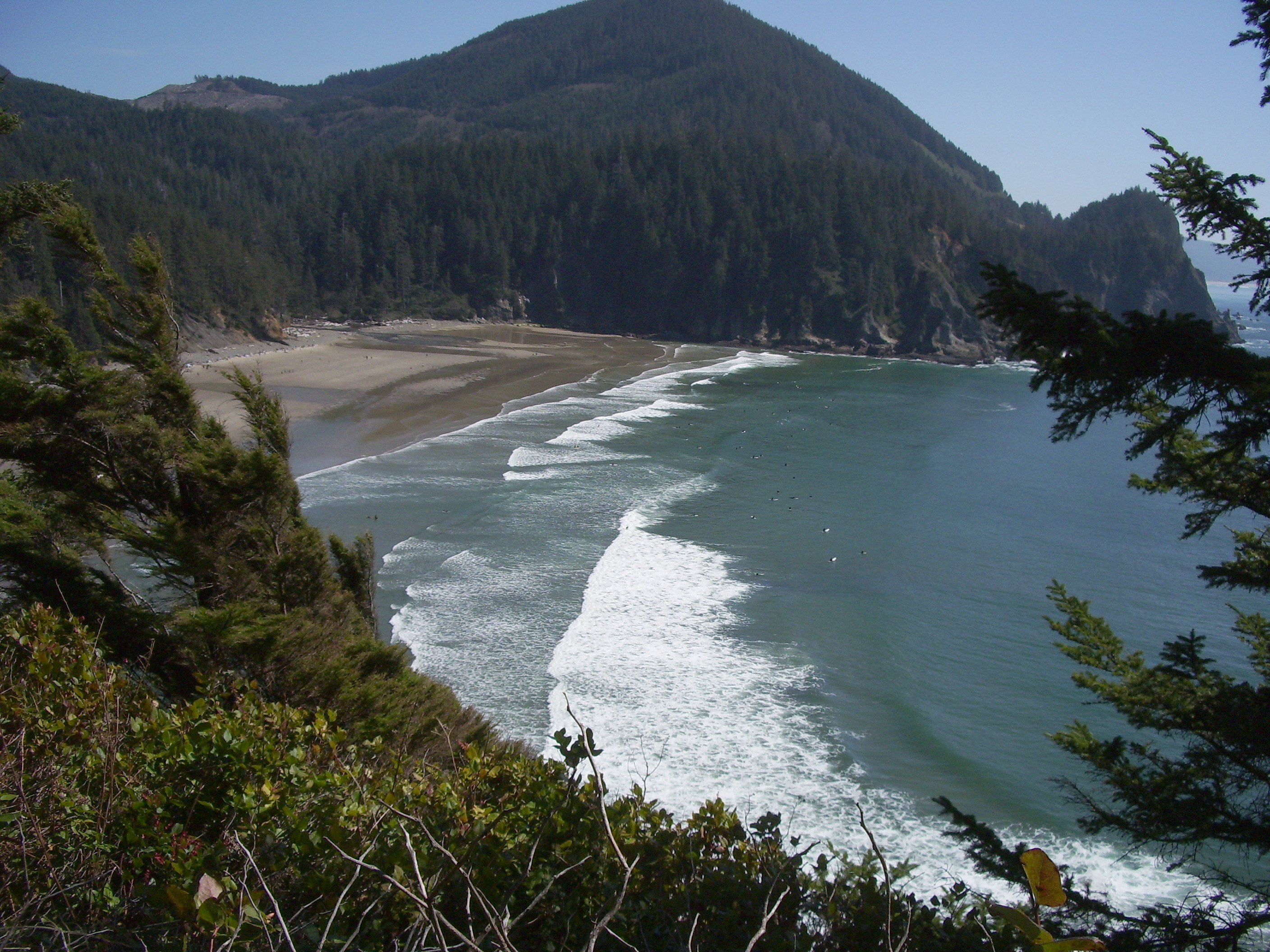 Smuggler Cove at Oswald West State Park on the Oregon Coast seen from the Oregon Coast Trail within on the south side of Cape Falcon. This first good weather day of the year attracted more than fifty wave surfers—many times the normal number—barely visible at full resolution. A half mile hike on a primitive muddy trail is required to reach the beach from Hwy 101.